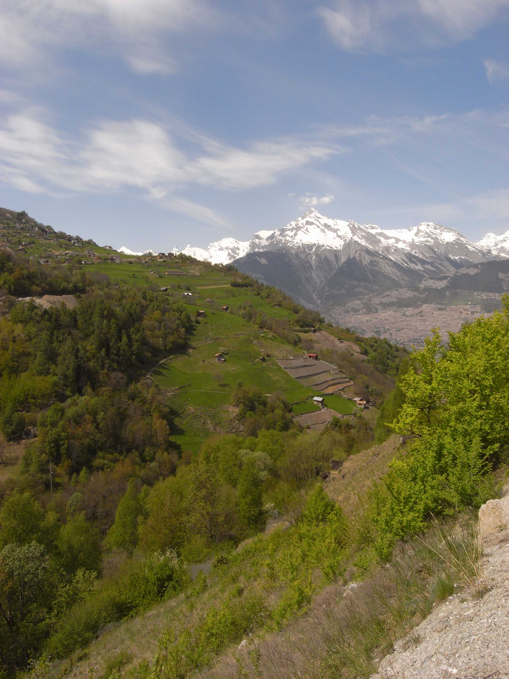 the Valley of the La Printse (Val de Nendaz), in the district Brignon